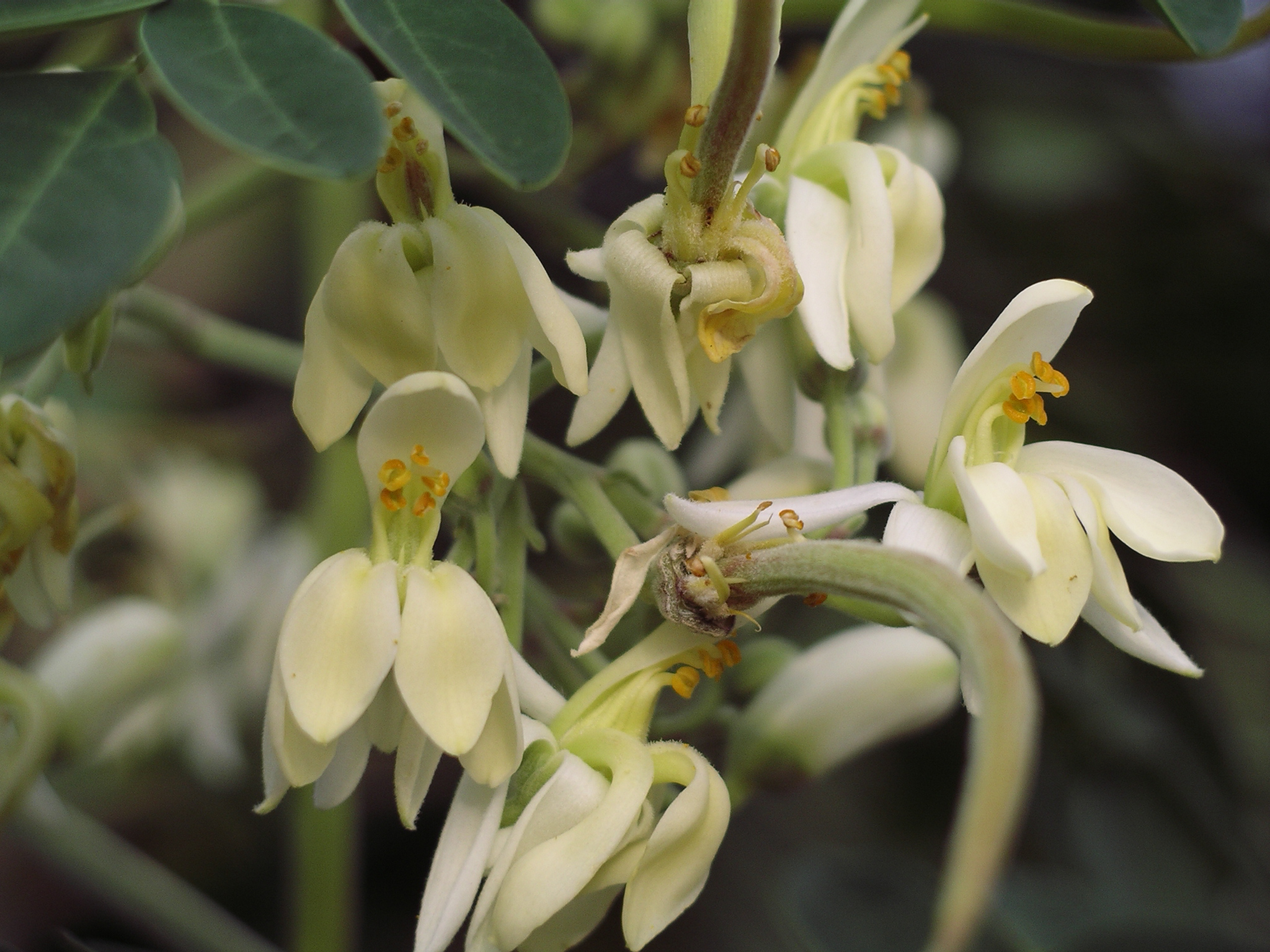 Moringa flower